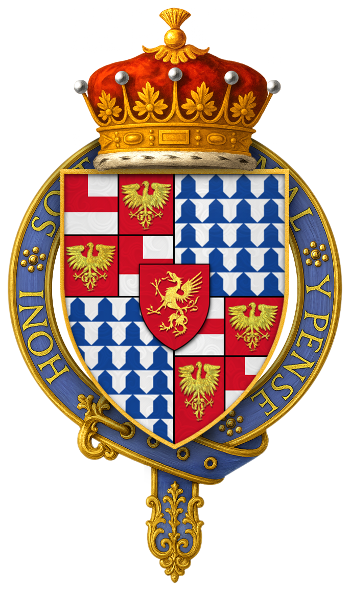 Sir Richard Wydeville, 1st Earl Rivers, KG HOPE, W. H. St. John, The Stall Plates of the Knights of the Order of the Garter 1348 – 1485: A Series of Ninety Full-Sized Coloured Facsimiles with Descriptive Notes and Historical Introductions, Westminster: Archibald Constable and Company LTD, 1901. “ Sir Richard Wydville, Lord Rivers, K.G. 1450-1469… The shield is quarterly: 1 and 4, Wydville (silver a fess and a quarter gules) quartering Prowes (gules an eagle gold); 2 and 3, Beauchamp of Hacche (fair); with an escutcheon of pretense of arms of Redvers (gules a griffin gold). ” Lord Rivers stall plate remains intact within the twentieth stall, on the north side of the quire.